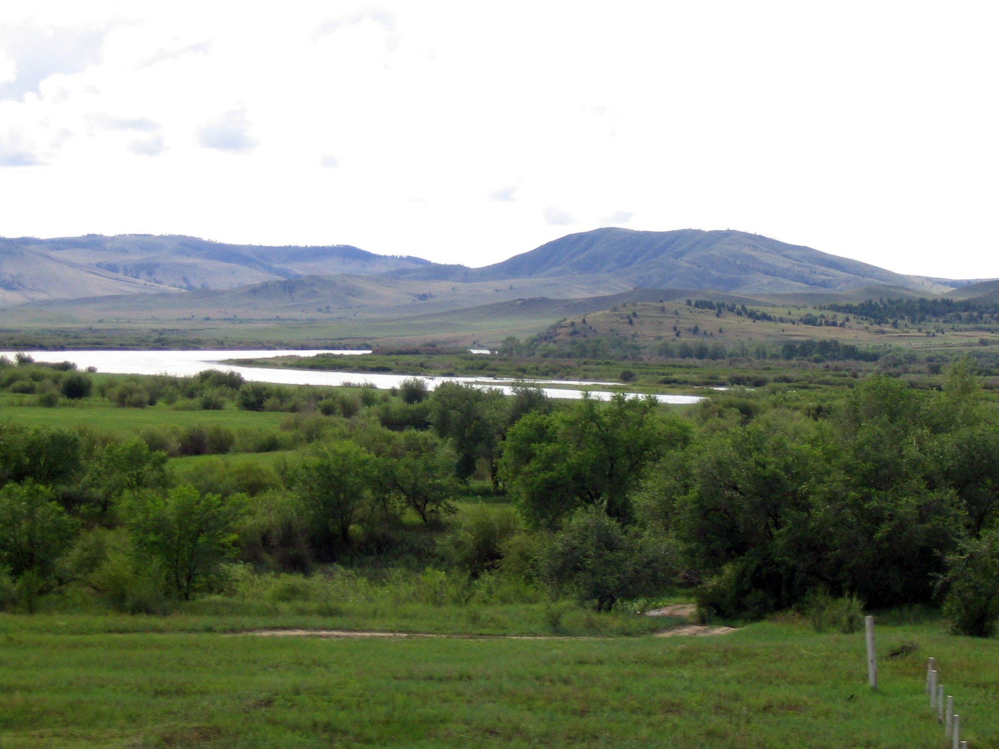 Image of the southern Buryatia landscape. Taken by me 7/06, released into public domain.